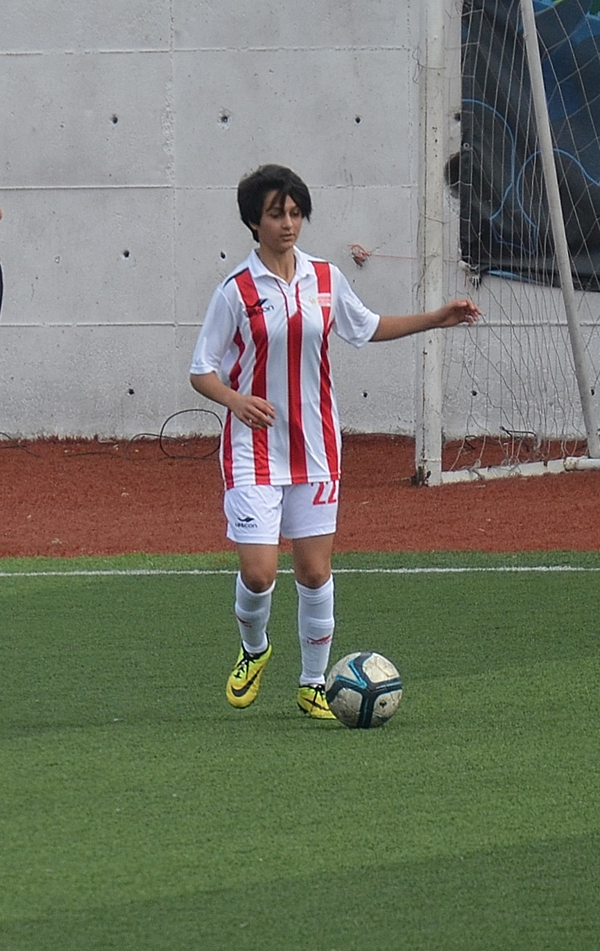 Hilal Çetinkaya for Ataşehir Belediyespor in the 2014-15 season